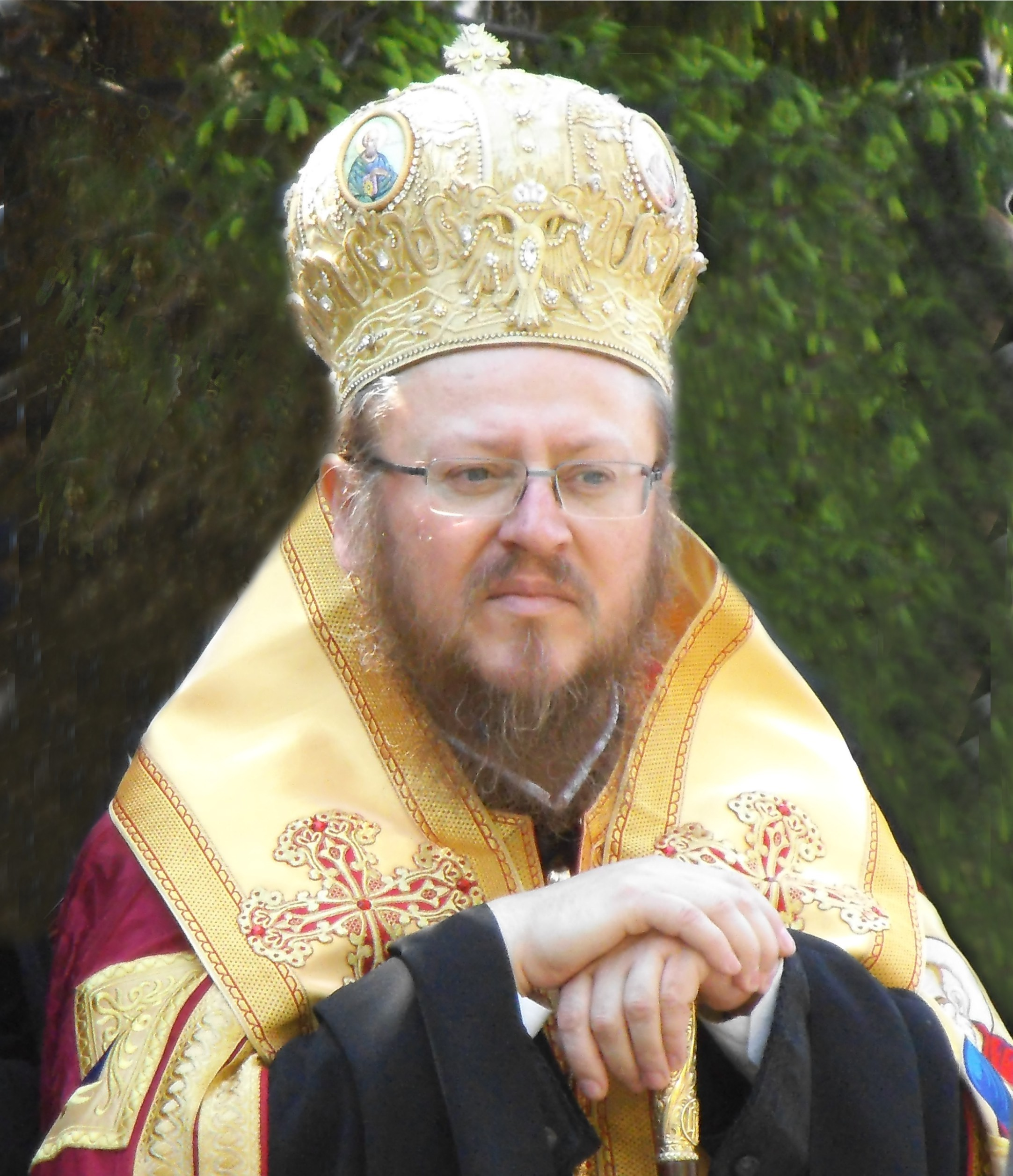 Bishop Naum of Rousse at the Monument of the Volunteers in Rousse on St.Georges' Day (May, 6th, 2014)